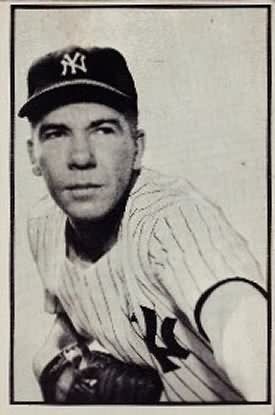 1953 Bowman Black and White baseball card of Bob Kuzava of the New York Yankees #33. PD-not-renewed.